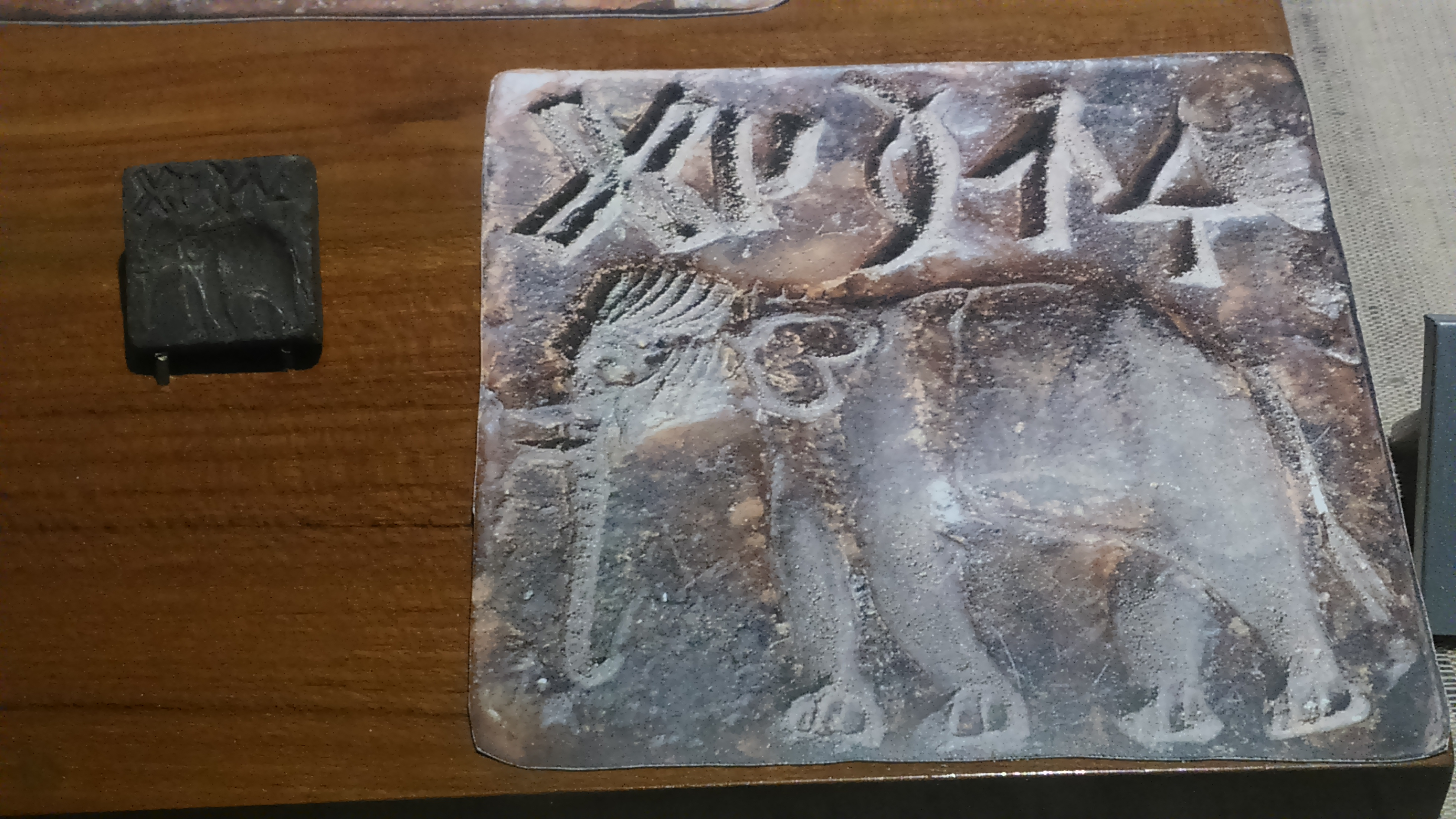 Elephant seal of Indus Valley, Indian Museum